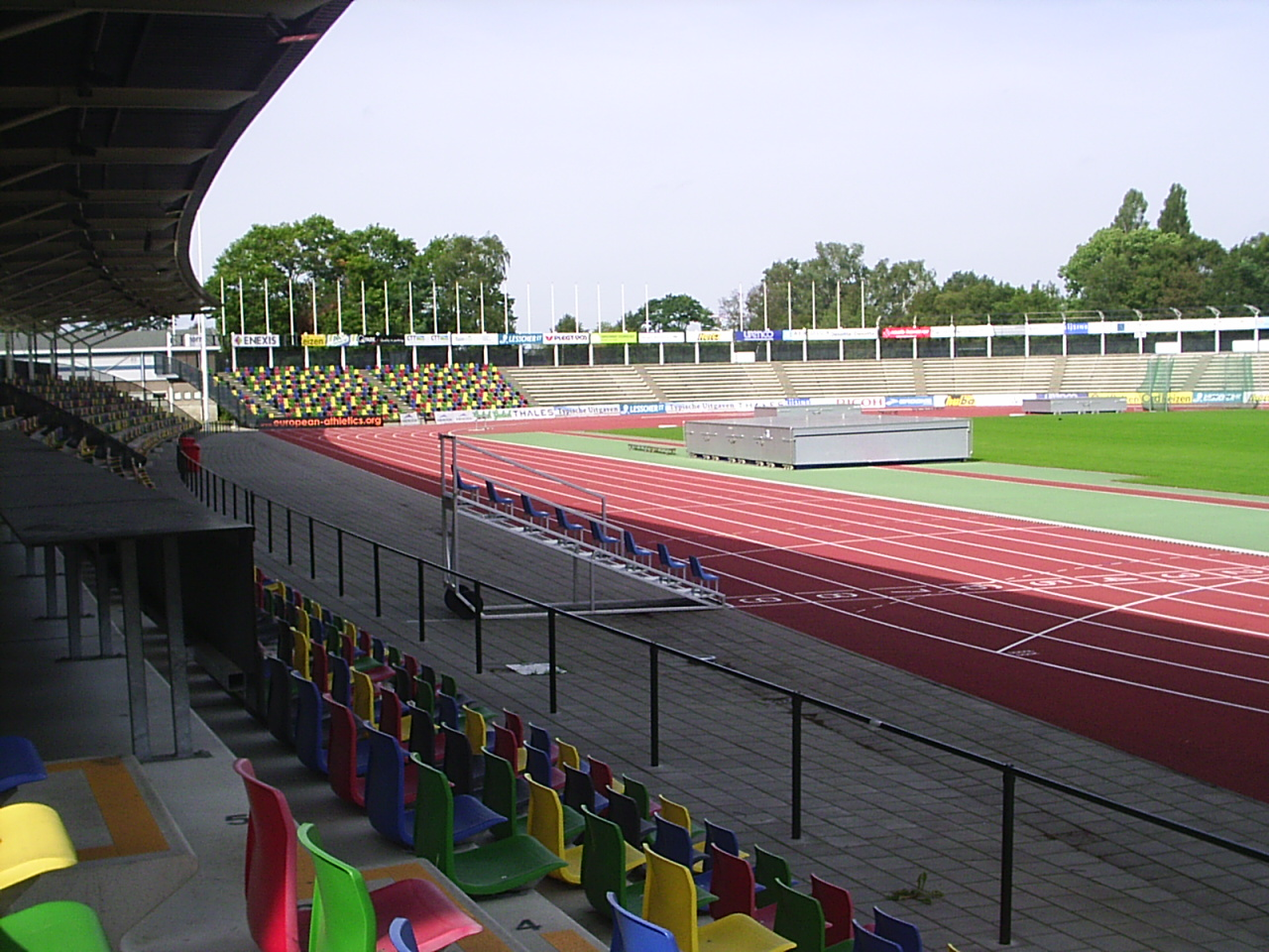 FBK Stadium